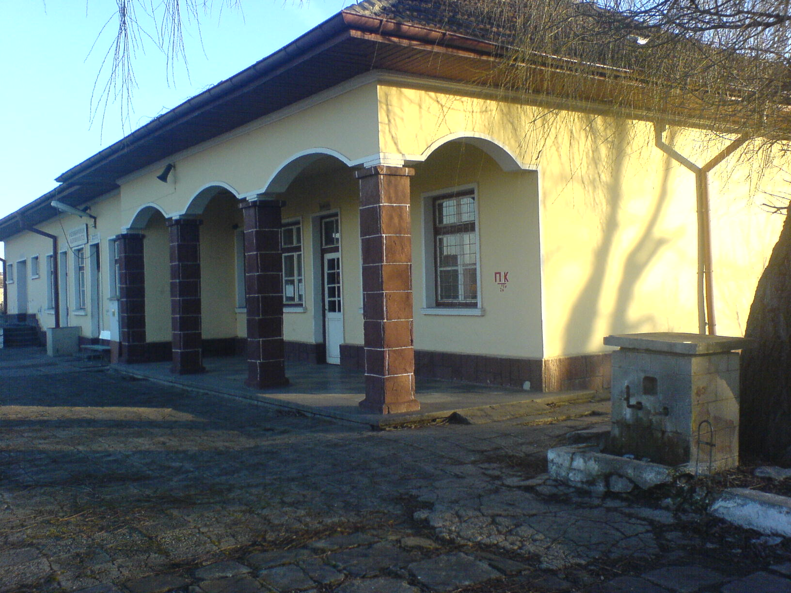 The railway station in village Aldomirovtzi, Bulgaria